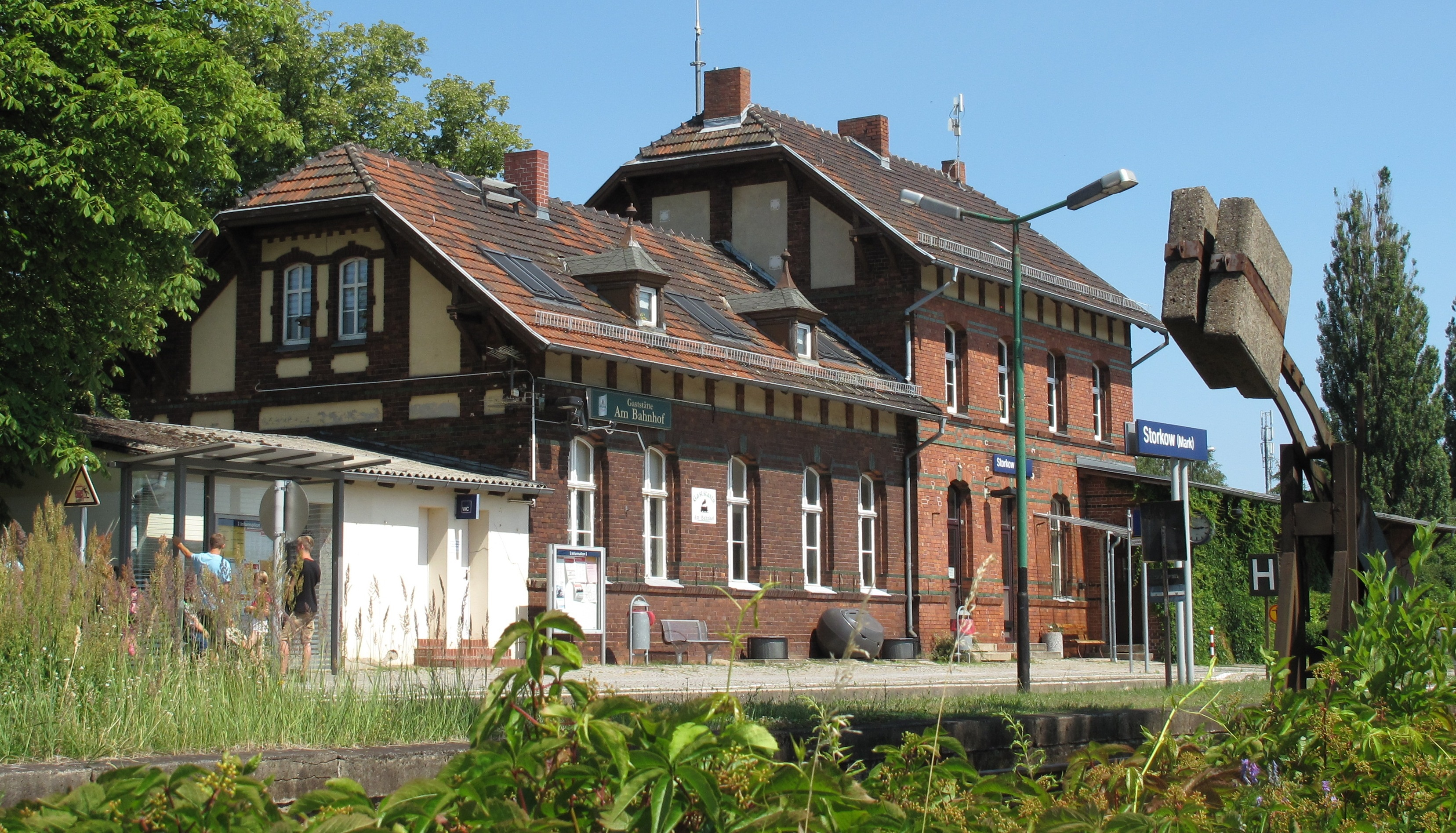 Listed train station in Storkow, opened in 1898. Storkow is a town in the District Oder-Spree, Brandenburg, Germany.